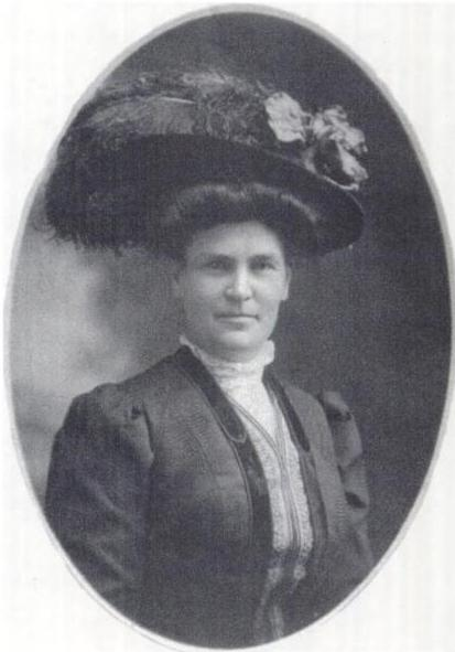 Photograph of Maud Gage Baum, L. Frank Baum's wife, in 1880